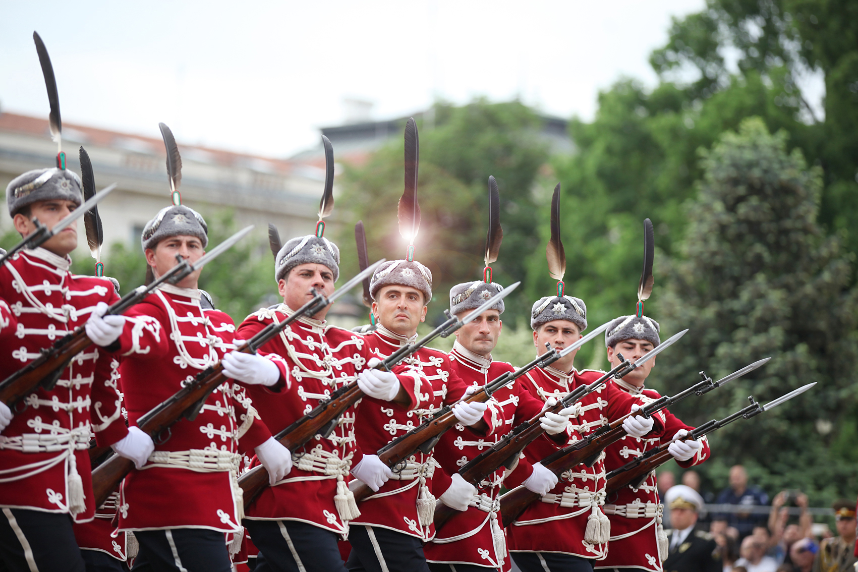 Parading unit of the Bulgarian National Guard at the 2018 Army Day parade.